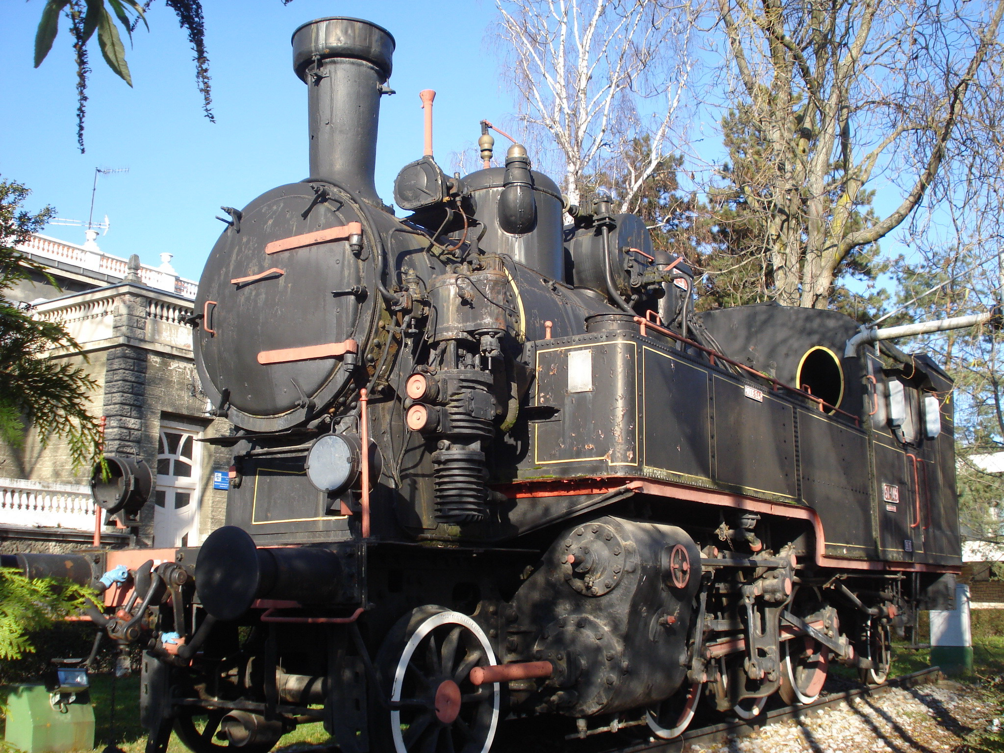 Old steam locomotive in Varaždin, Croatia - south view